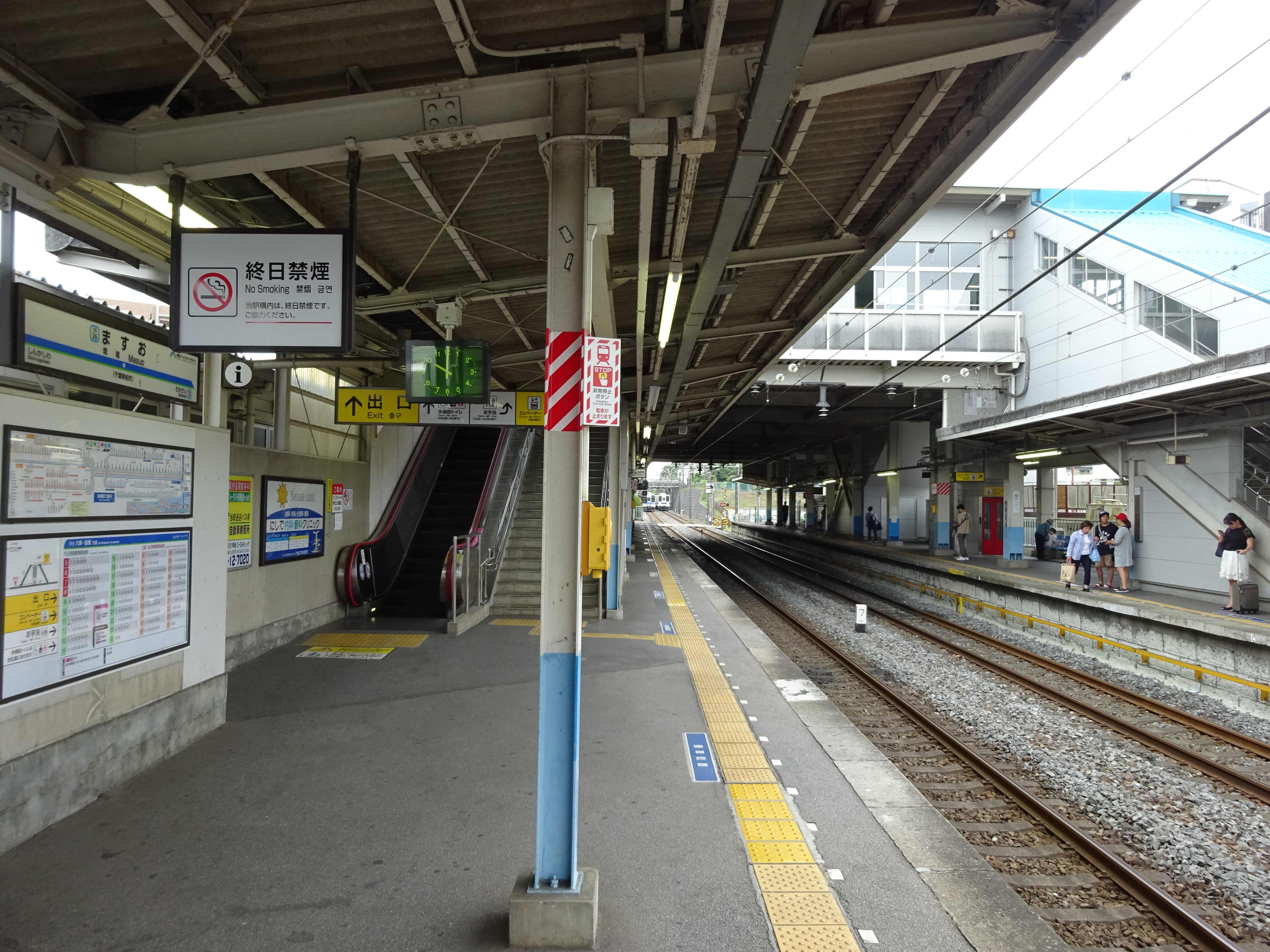 Platforms of Masuo Station